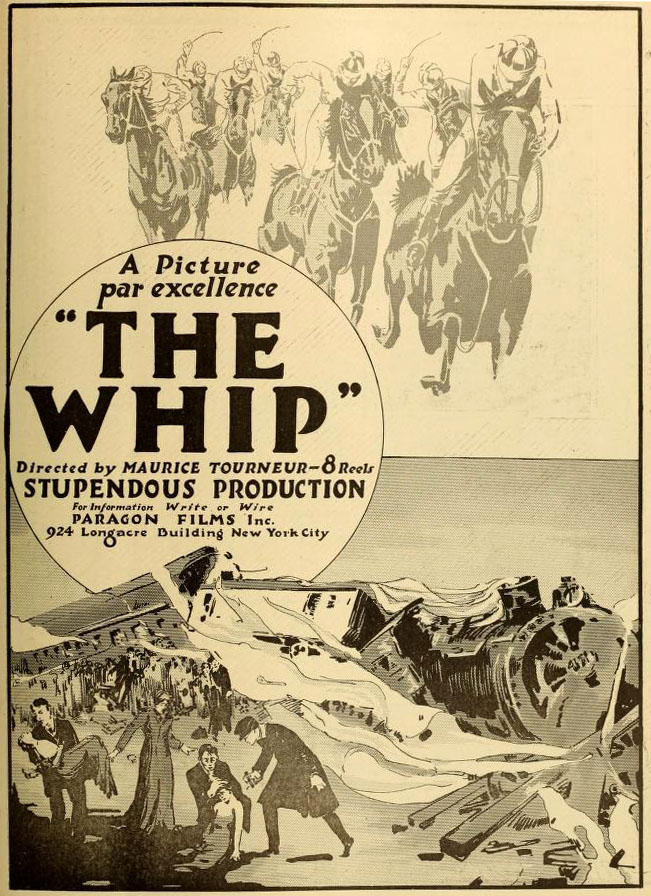 Advertisement in Moving Picture World for the film The Whip (1917).